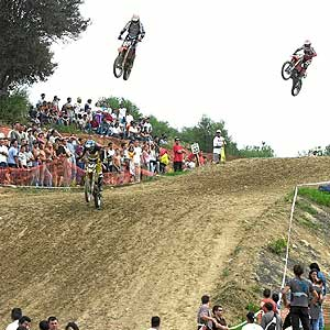 Photograph I took in a mx race at Felanitx